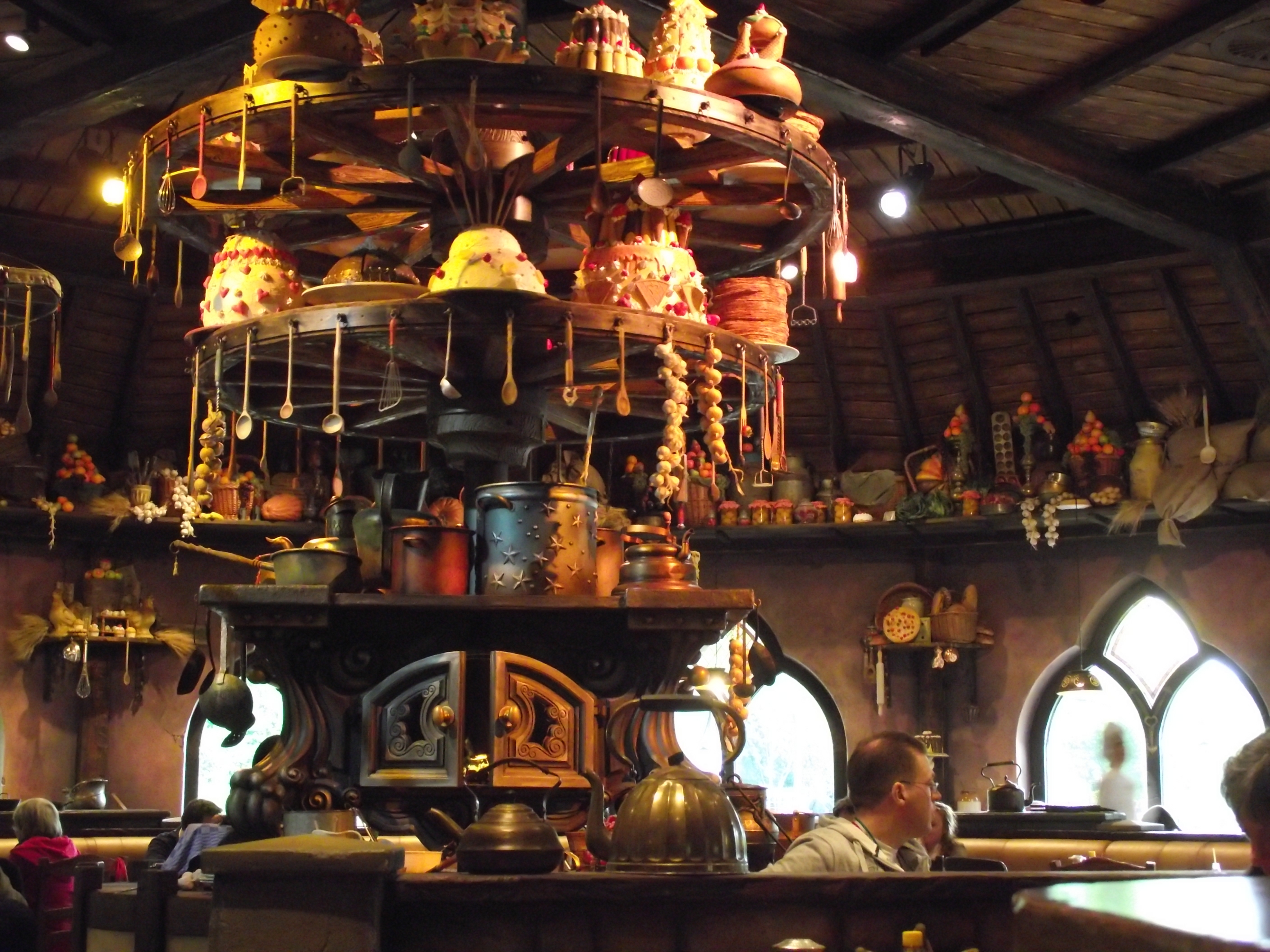 Polles Keuken at Efteling